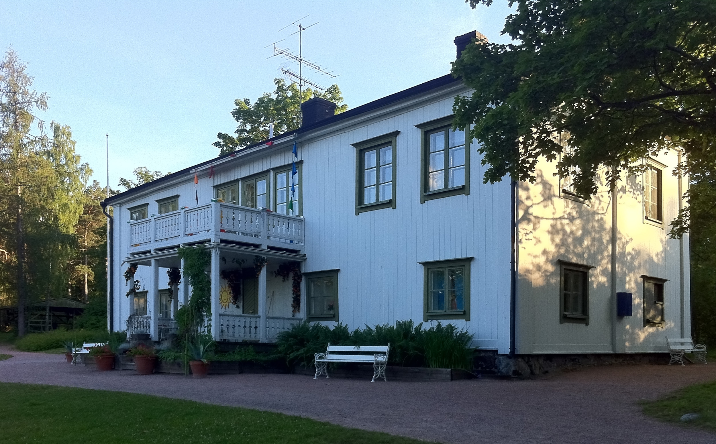 Stansvik Manor, Laajasalo, Helsinki. Built 1803-04.